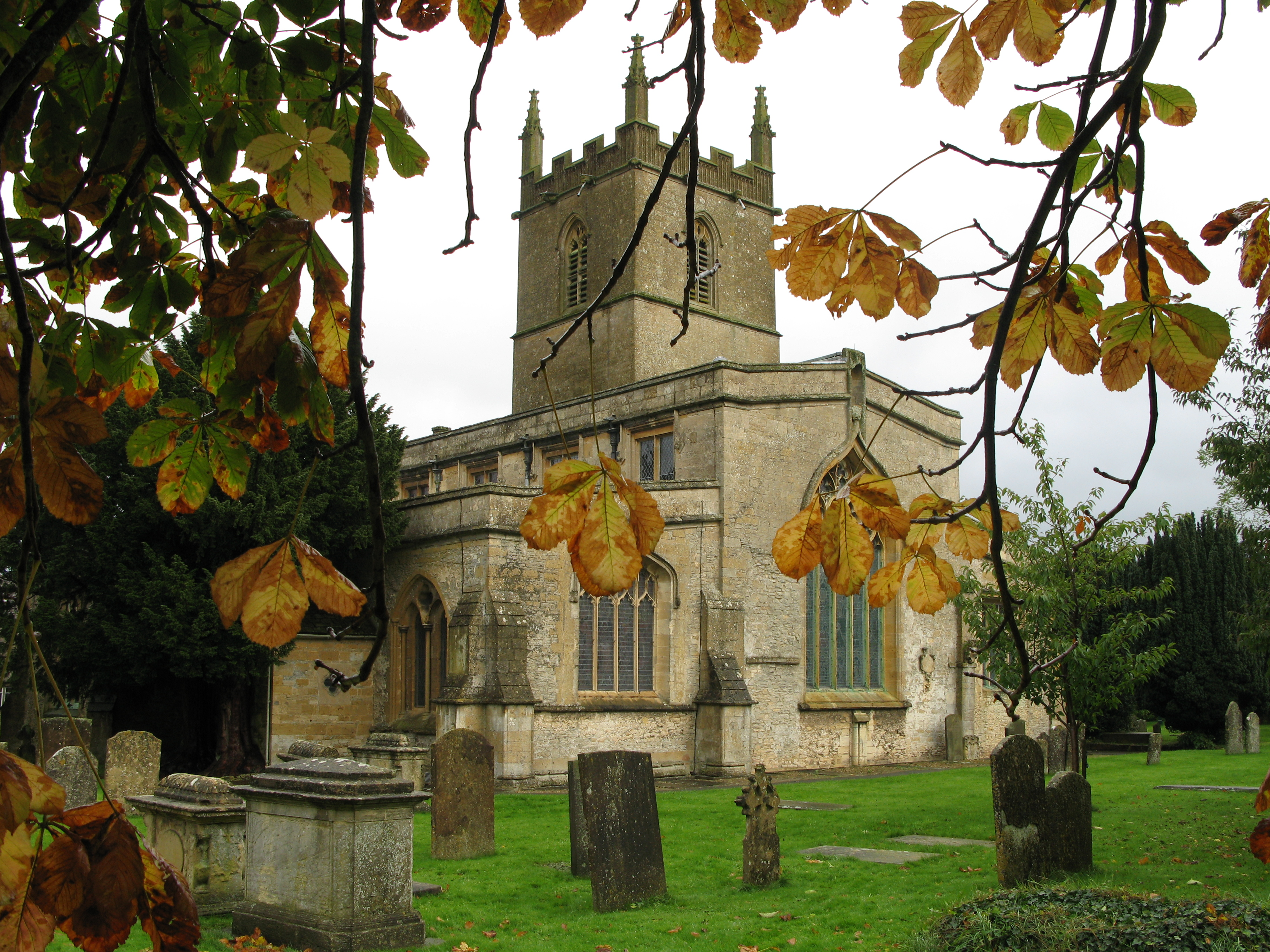 Church and churchyard